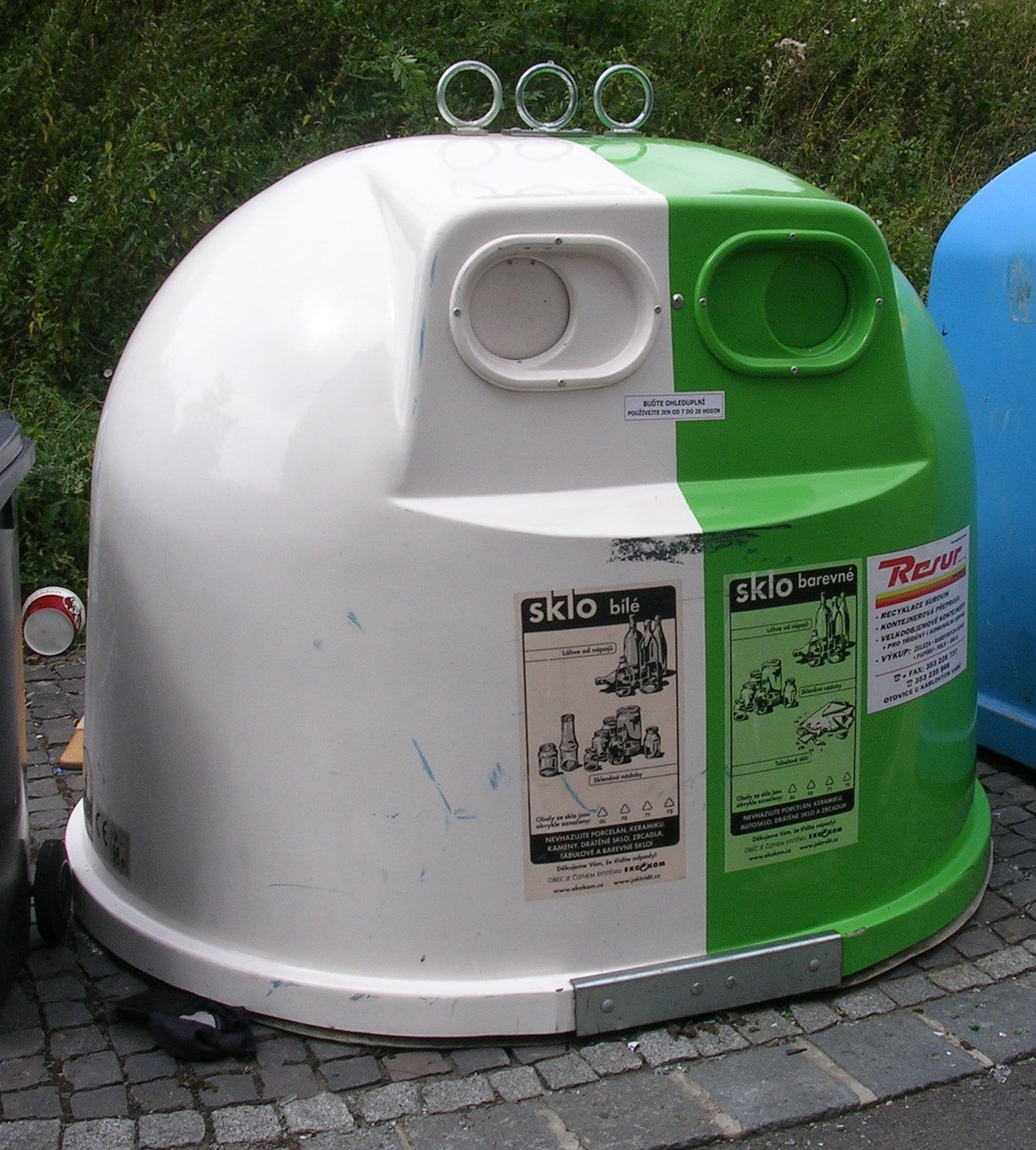 Karlovy Vary, the Czech Republic. Sorted waste containers. Divided glass salvage container.